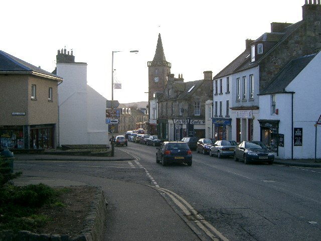 Kinross High Street. Looking South, the clock tower is the old Town House which is no longer in use.